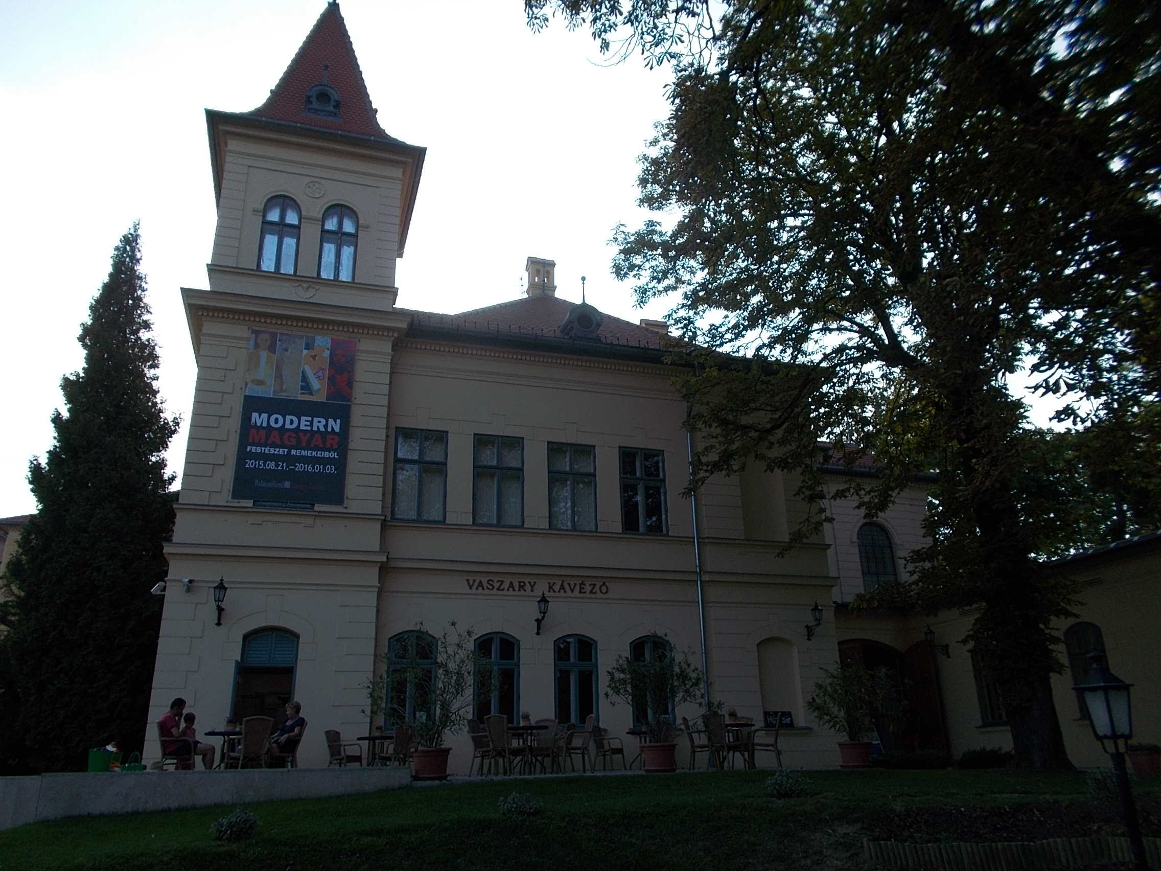 Vaszary Villa. Built in Eclectic style in 1892. Listed ID 11380. - 2 Honvéd Street, Balatonfüred, Veszprém County, Hungary